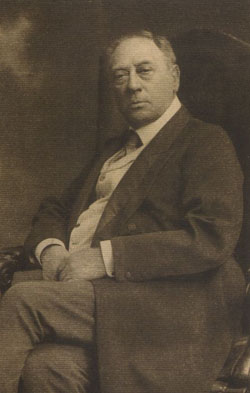 Bolesław Leszczyński